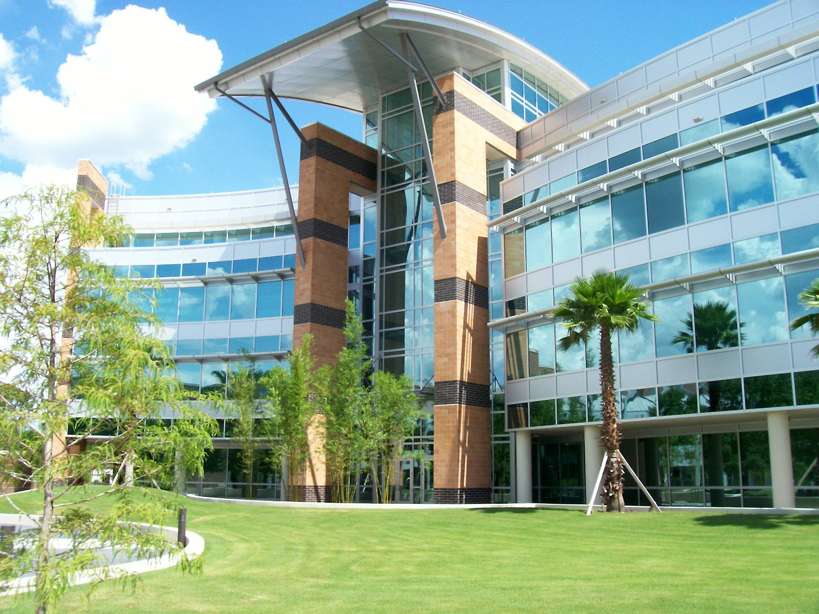 Harris Engineering Center (Engineering 3), Home of School of Electrical Engineering and Computer Science; it was opened in fall of 2006.